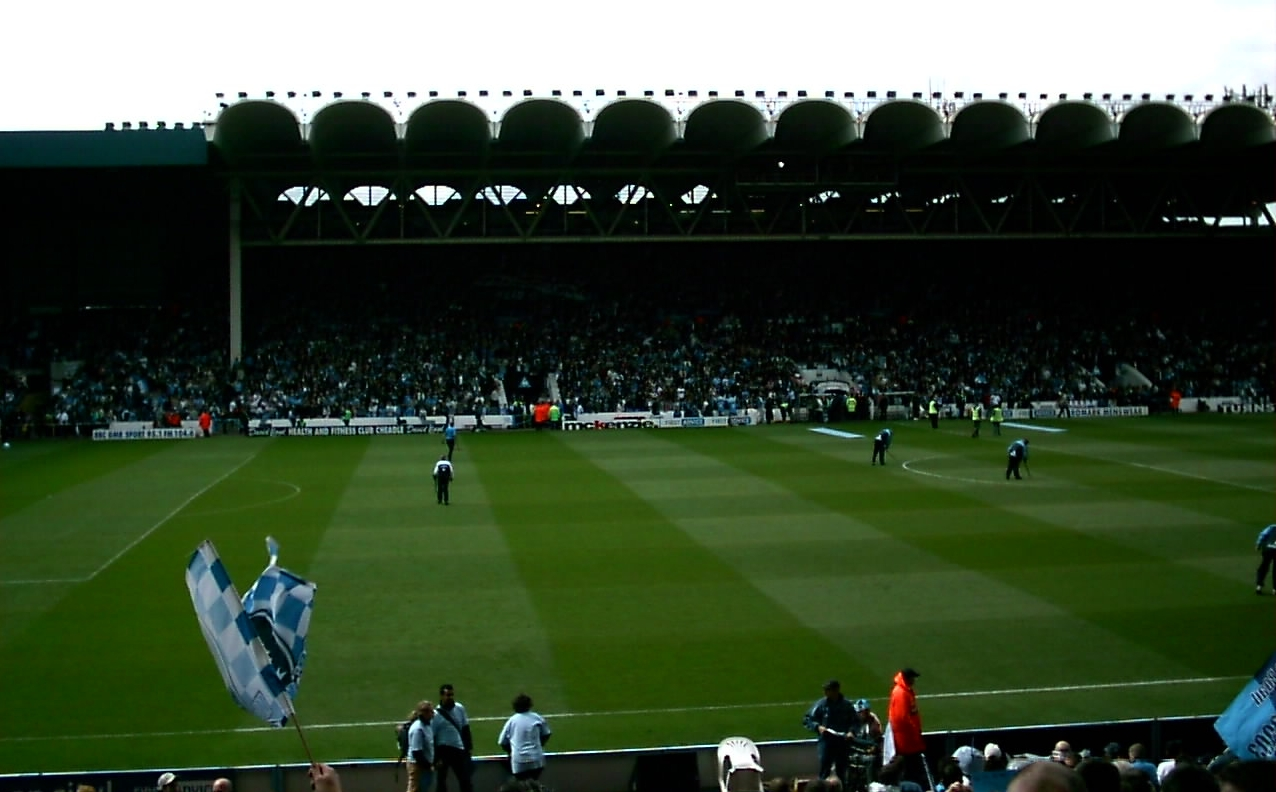 Maine Road, Manchester, shortly before the final game at the stadium.